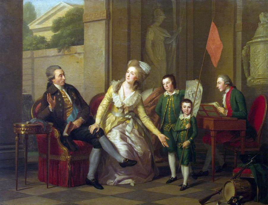 Portrait of the Soltykov Family (1782), by Johann Friedrich August Tischbein, in the Hermitage Museum, Saint Petersburg, Russia.